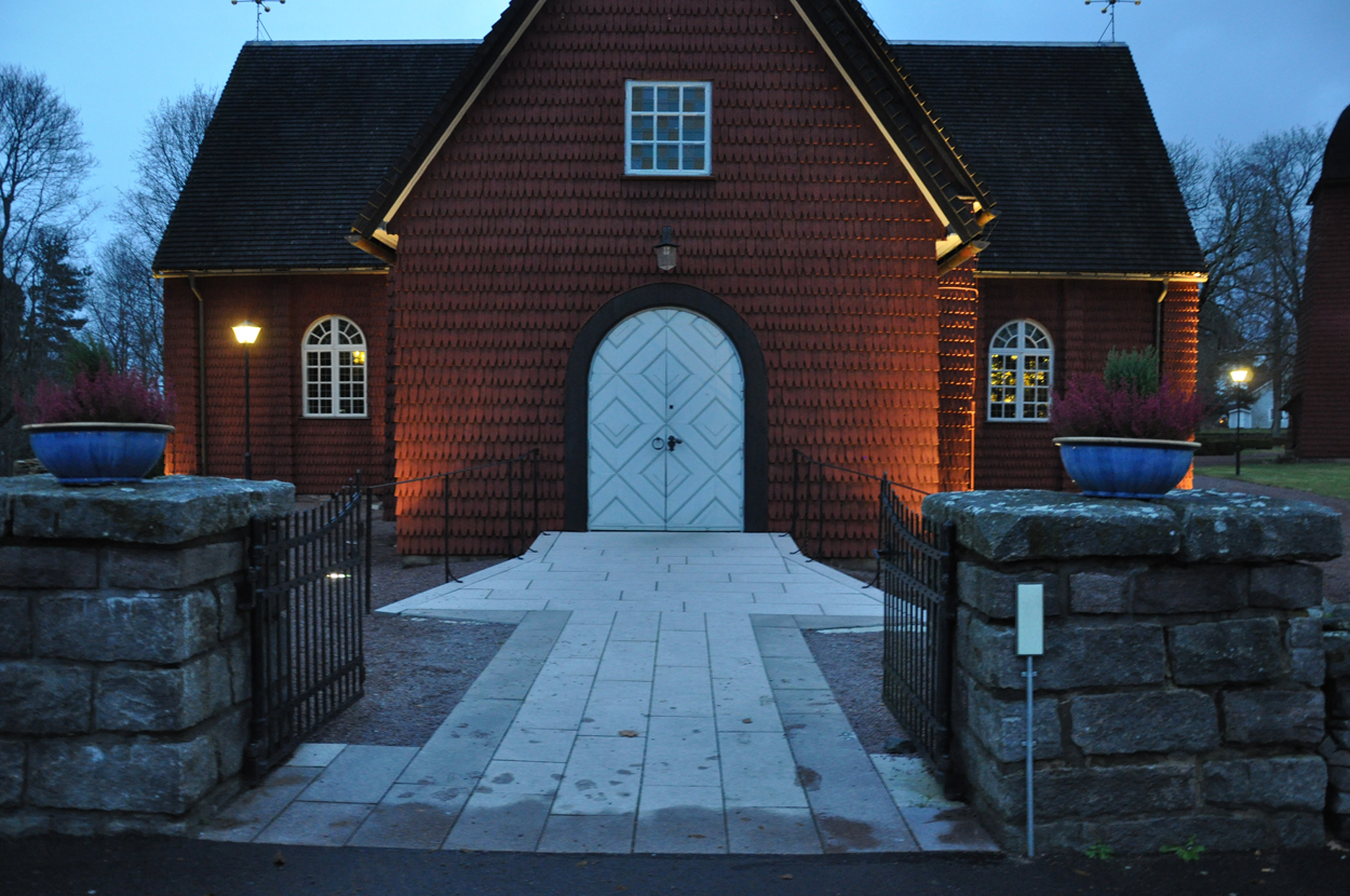 The entrance to Hammarö kyrka.